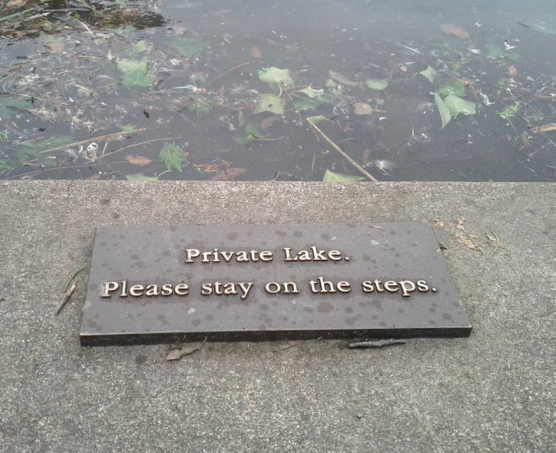 Sign on steps in Millennium Plaza Park in Lake Oswego, Oregon indicating that lake access is not permitted.